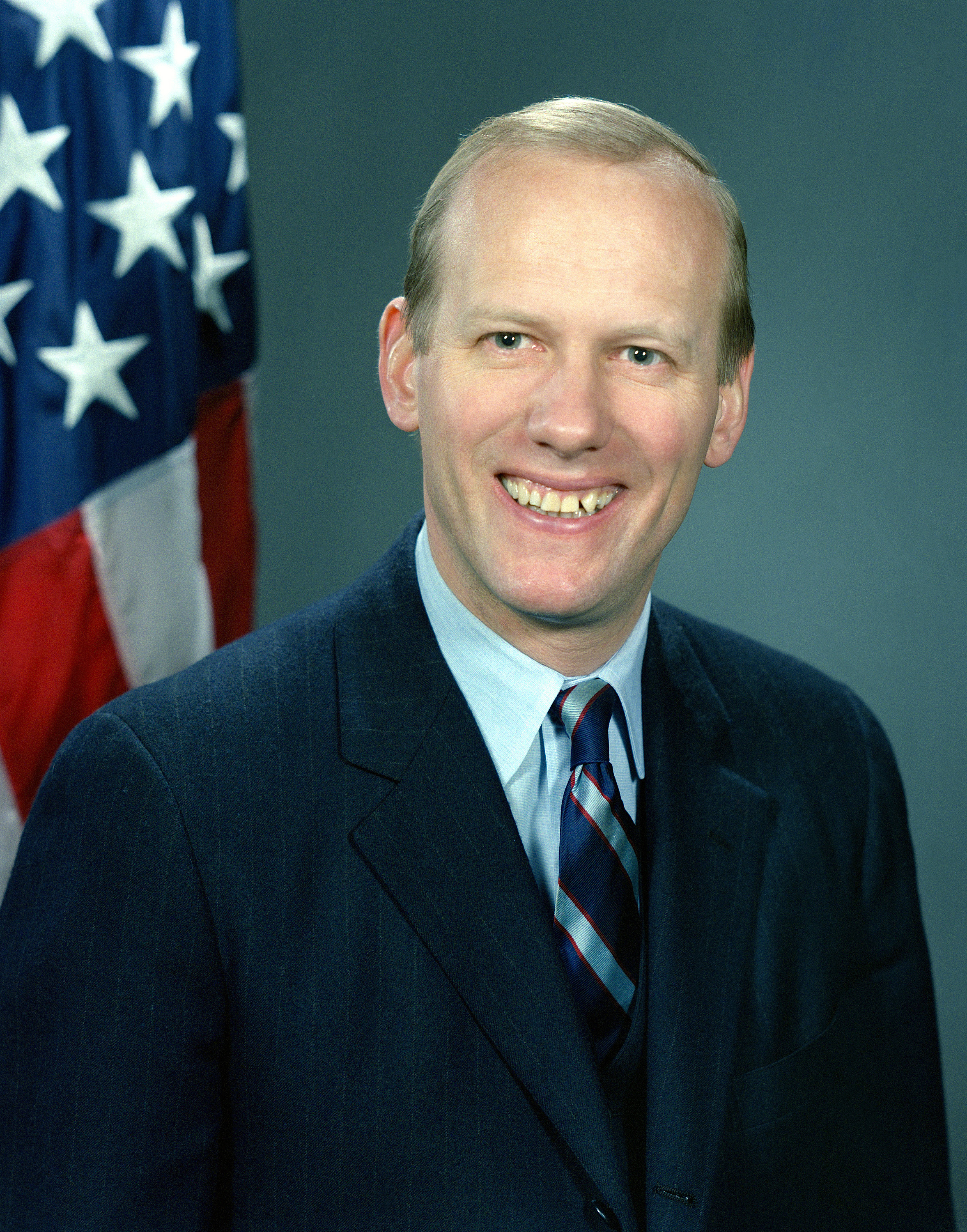 William Howard Taft IV, U.S. politician.